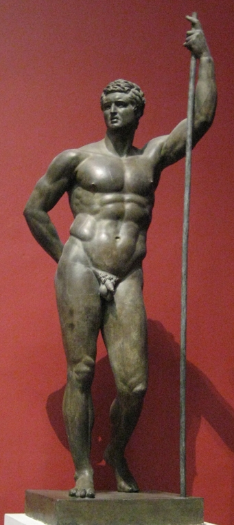 Statue of a prince or dynast without crown, traditionnally thought to be a Seleucid prince, maybe Attalus II of Pergamon. Bronze, Greek artwork of the Hellenistic era, 3rd-2nd centuries BC./ Plaster cast in Pushkin museum after original in Palazzo Massimo alle Terme